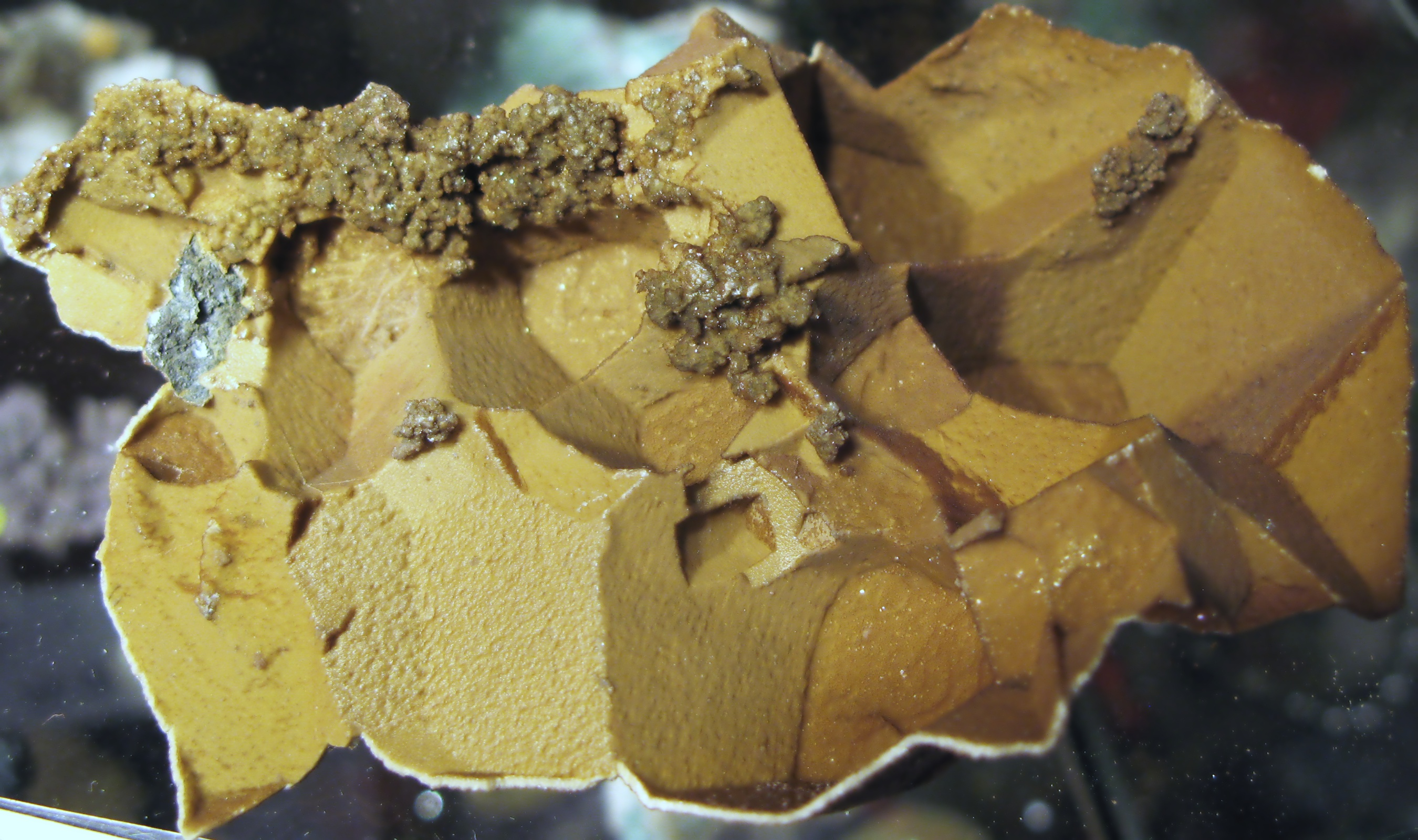 underside view of a perimorph of Calcite, Sphalerite, Siderite - picture taken on a mineral exchange Locality: Aggeneys, Orange River Area, South Africa